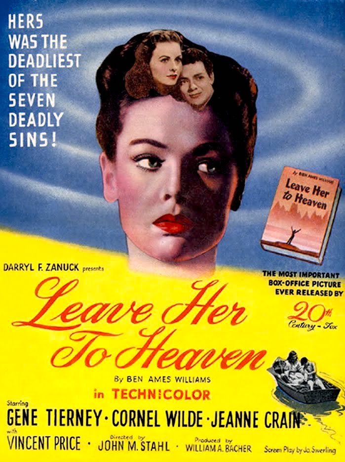 One-sheet of Leave Her to Heaven (1945) but 20th Century Fox; this poster shows no copyright markings.